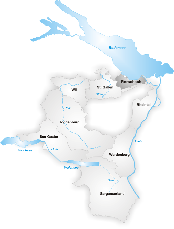 District Rorschach